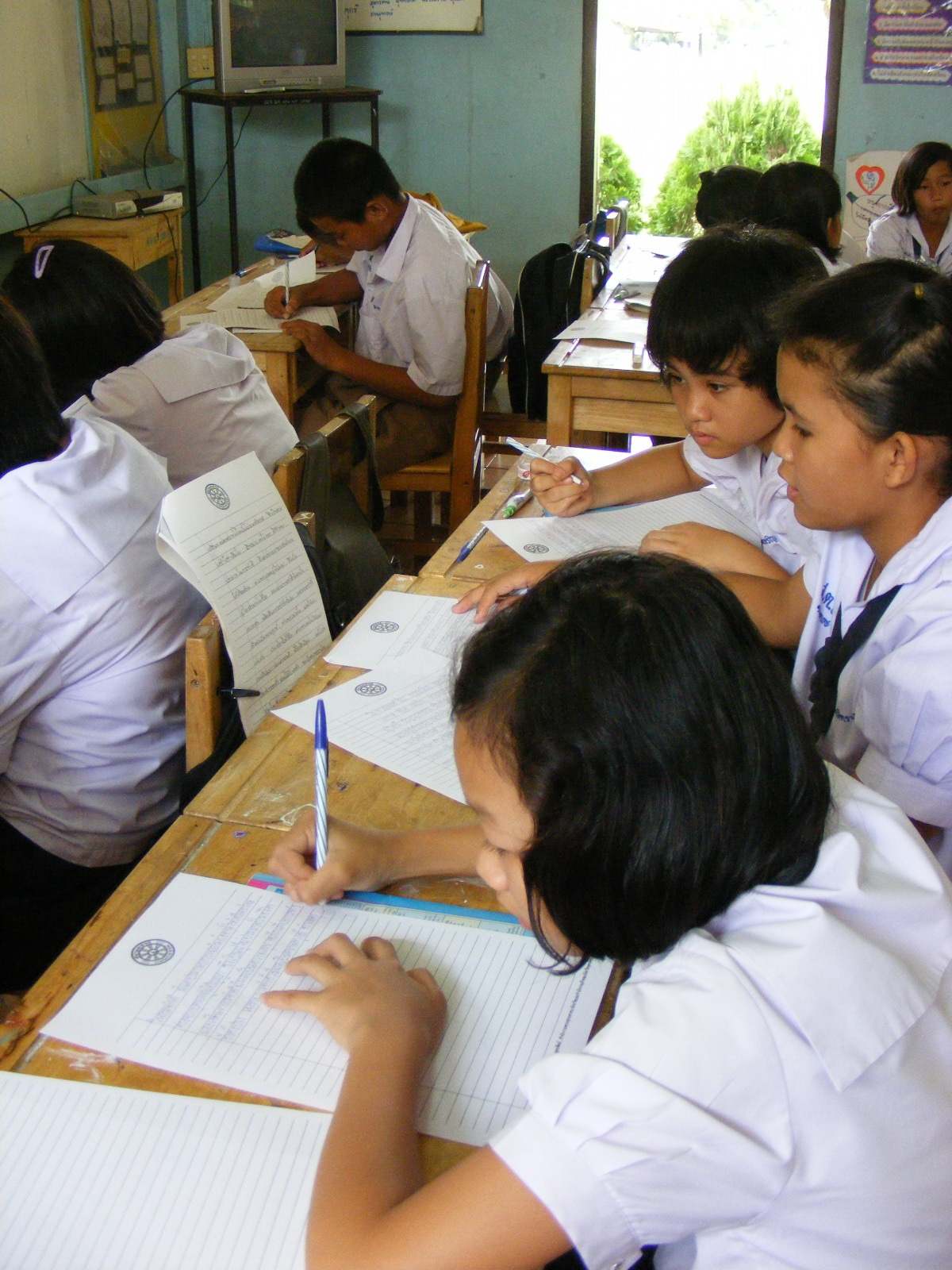 student in Ban Hat Suea Ten School in Wat Pa Kanun, Khung Taphao subdistrict, Mueang Uttaradit, Uttaradit Province, Thailand.